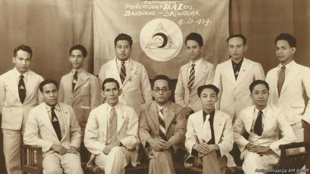 PAI exponent branch meeting in Palembang and Bandung in 1939.